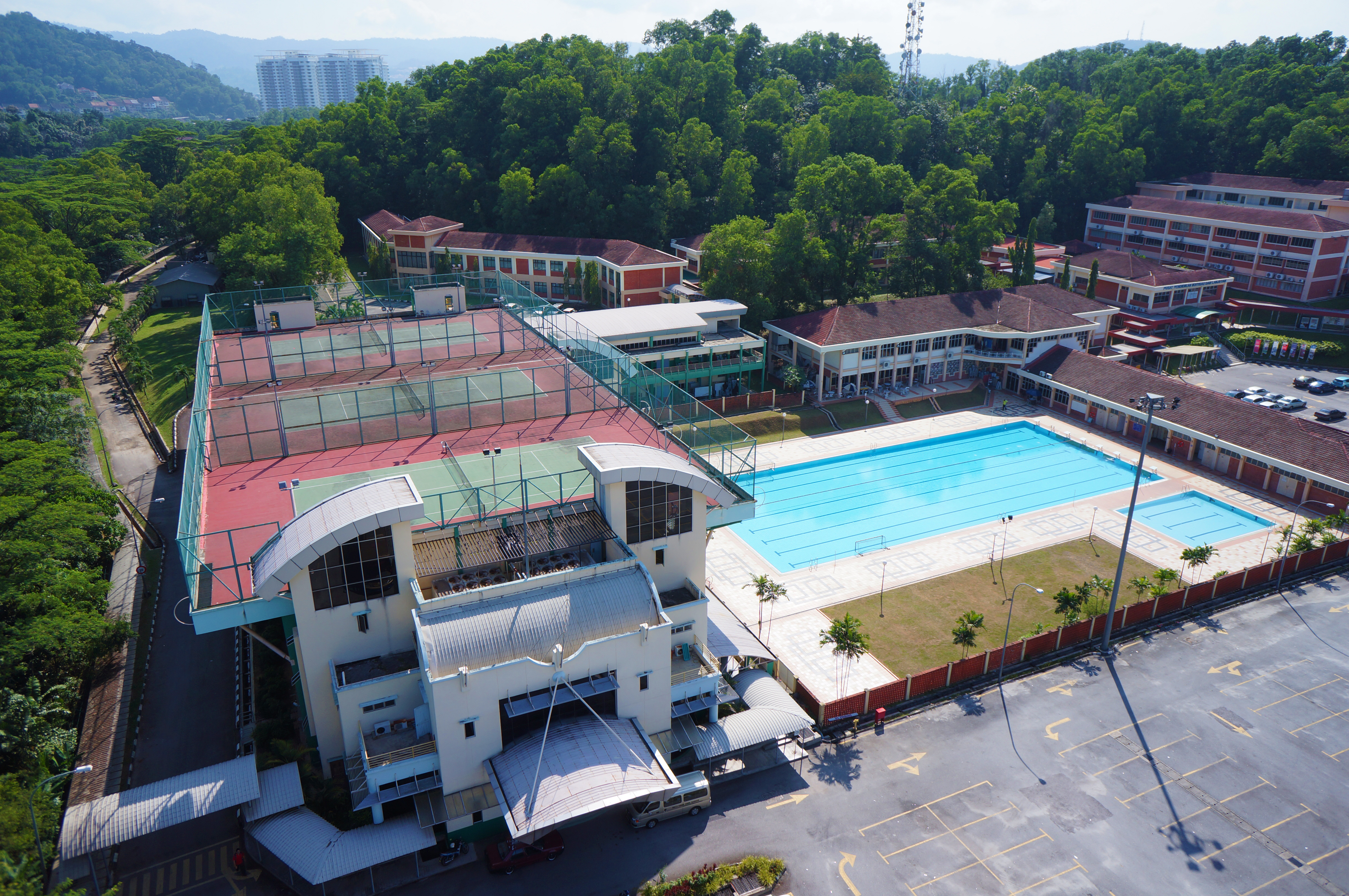 TAR UC's Sports Complex